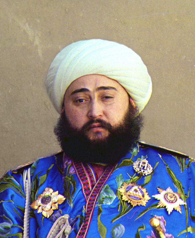 Mohammed Alim Khan (1880-1944), Emir of Bukhara in 1911.